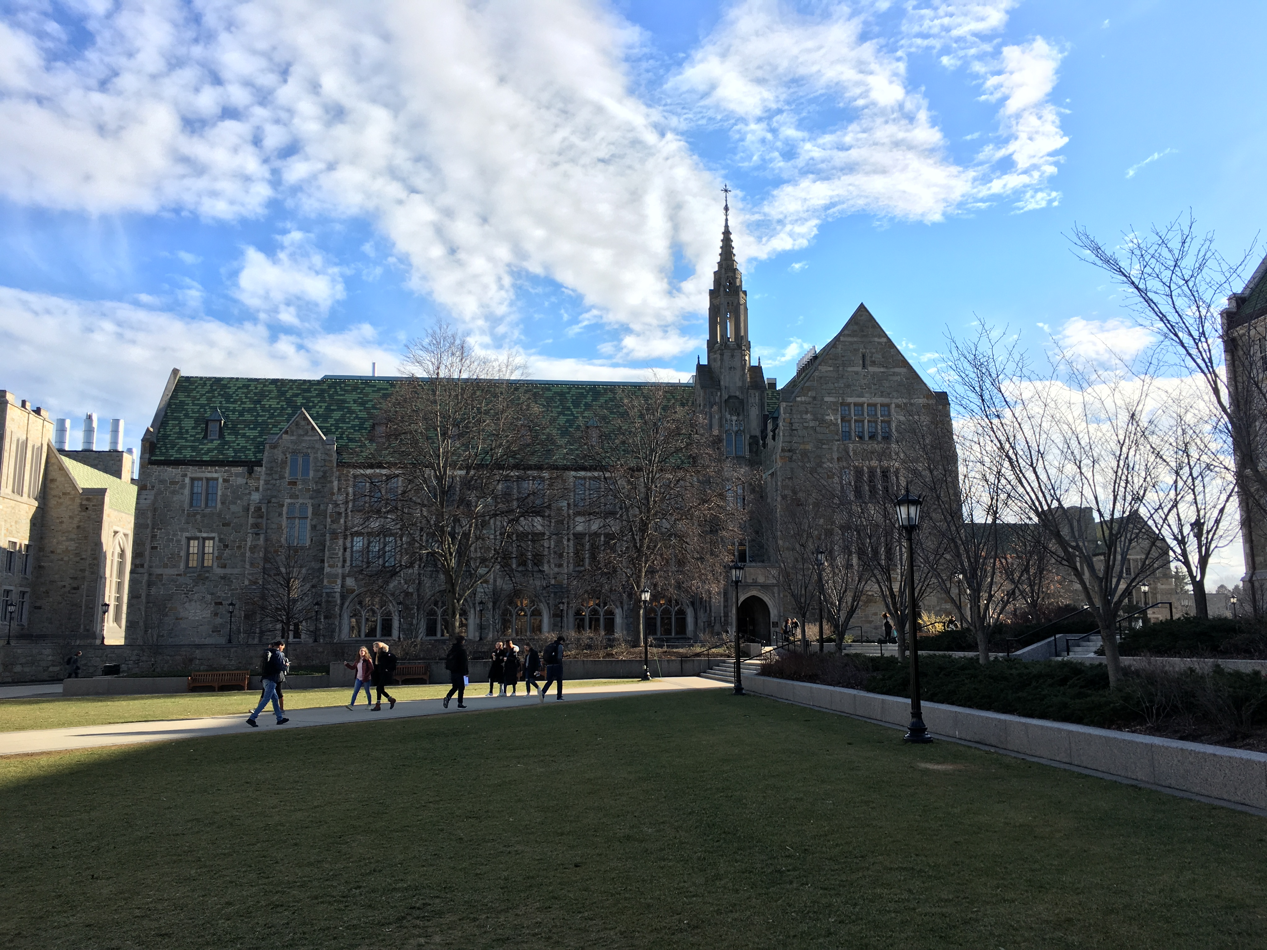 Devlin